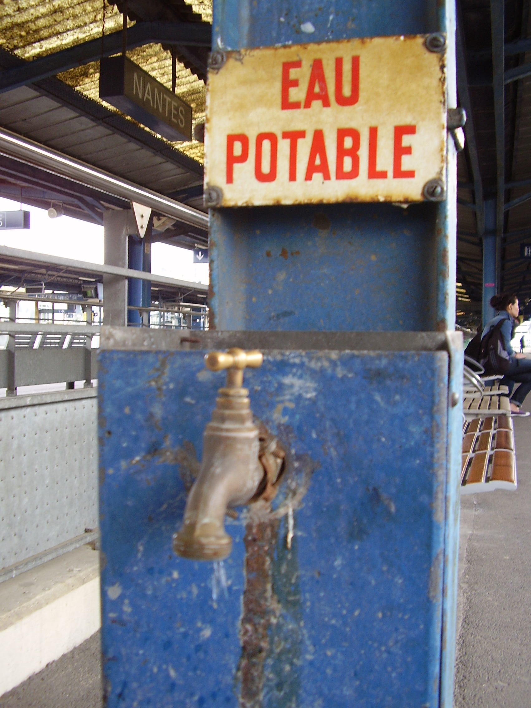 Drinking water, Gare de Nantes